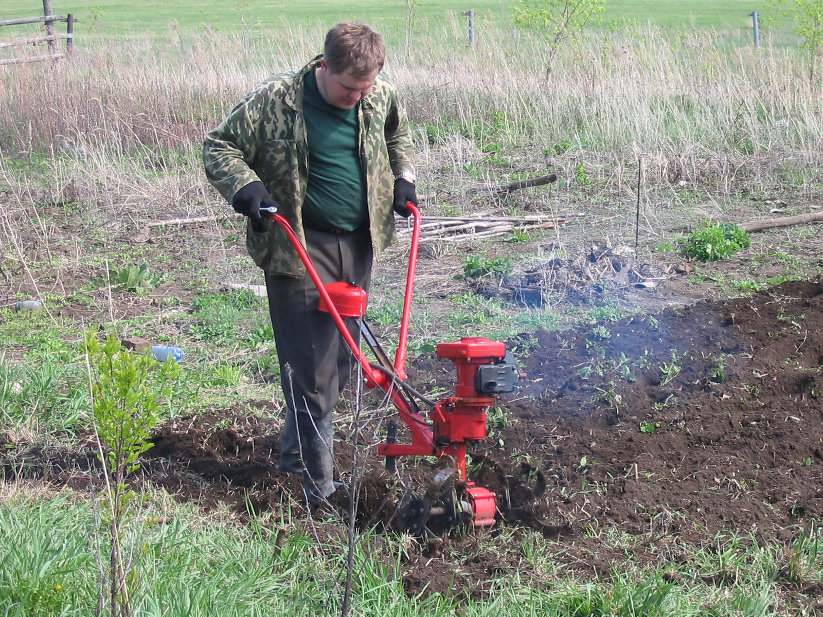 Cultivation using motor tiller (type "Sadovod")